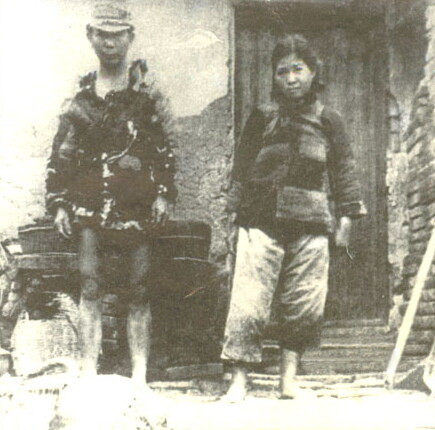 Look like begger bare foot revolutionary. 赤腳革命者